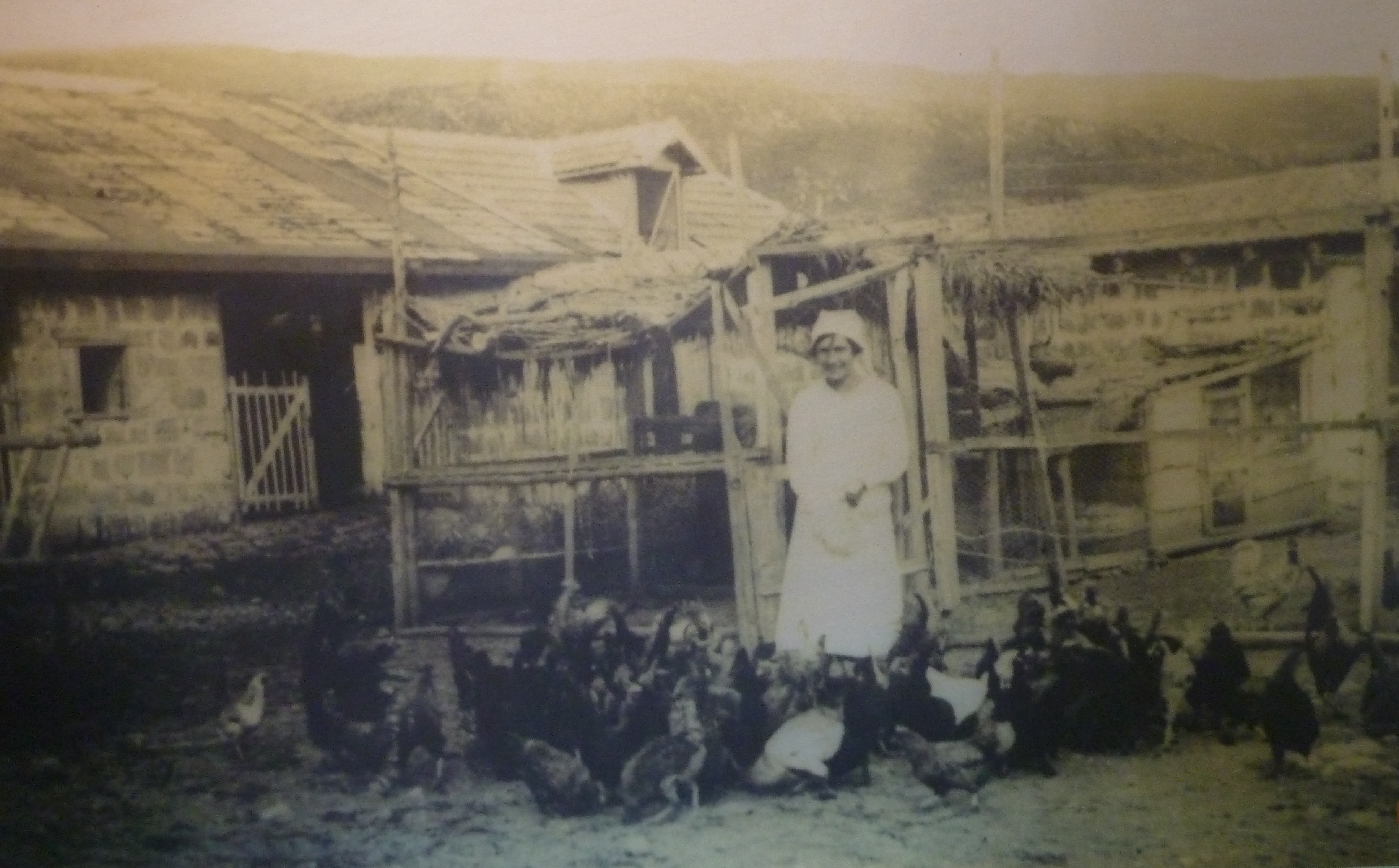 Historical images of Kinneret Farm